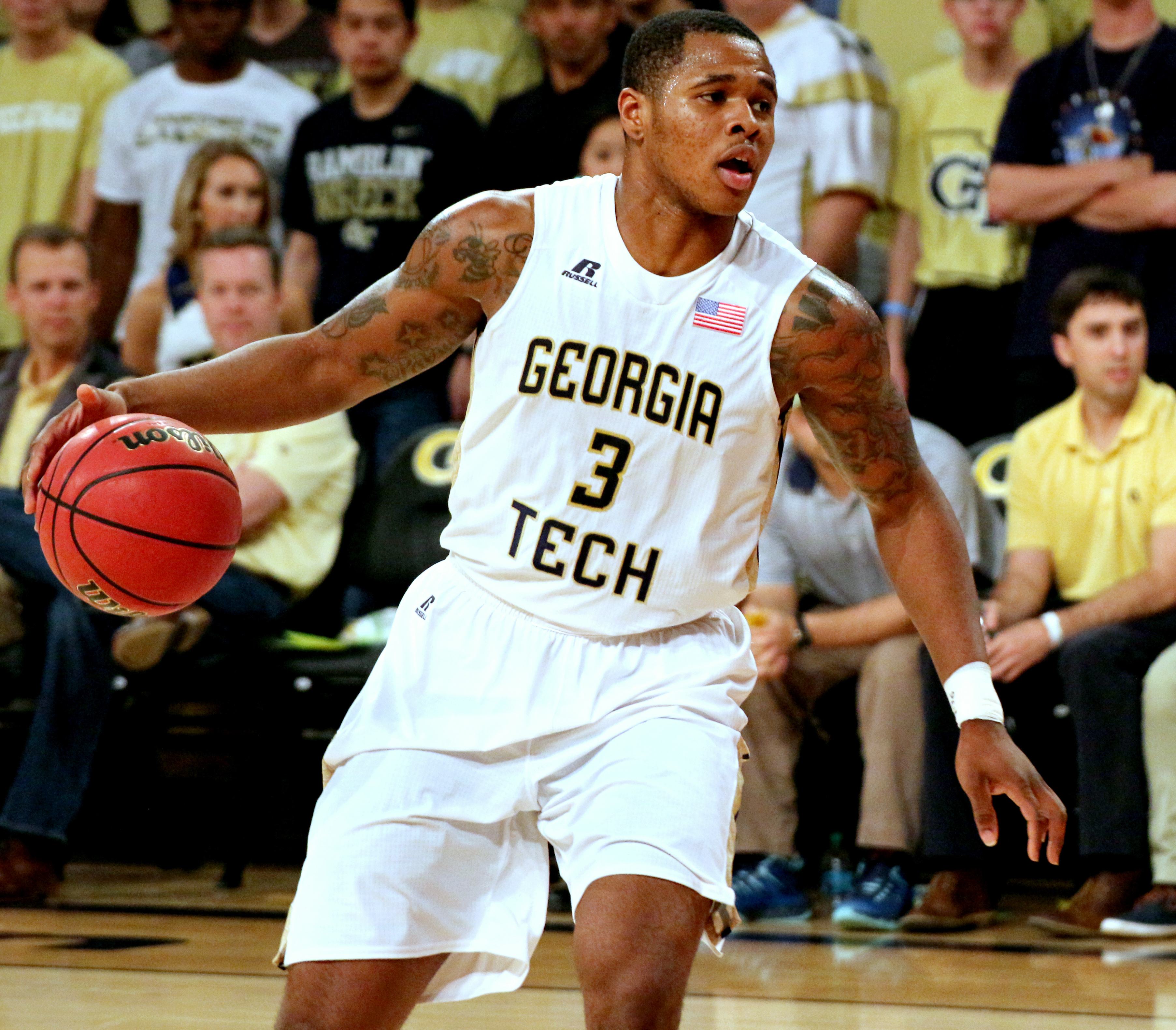 Georgia Tech v. Houston - N.I.T. First Round